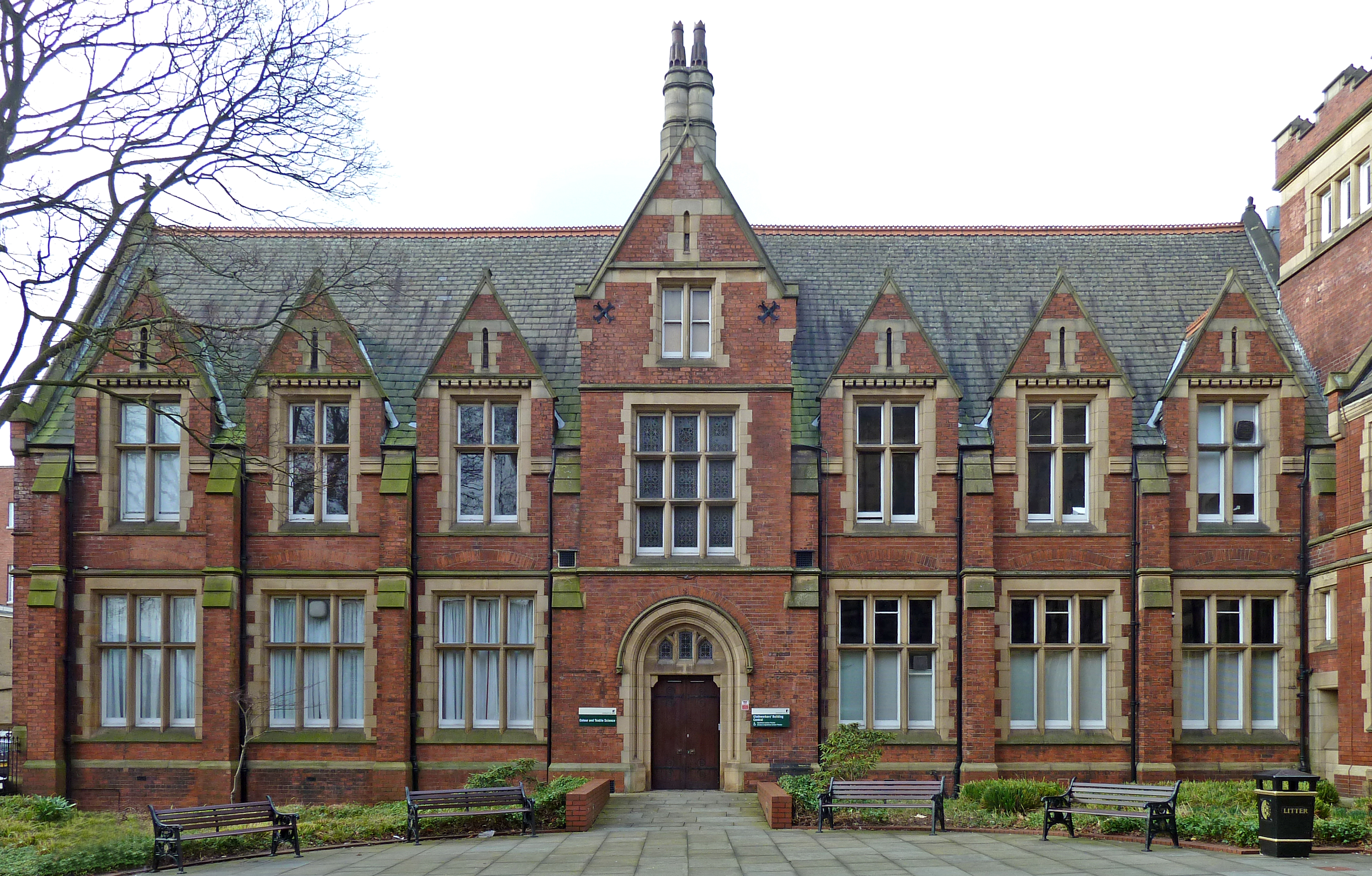 Clothworkers' Building, University of Leeds, Leeds, West Yorkshire. Taken by Flickr user on Friday the 8th of February 2013.